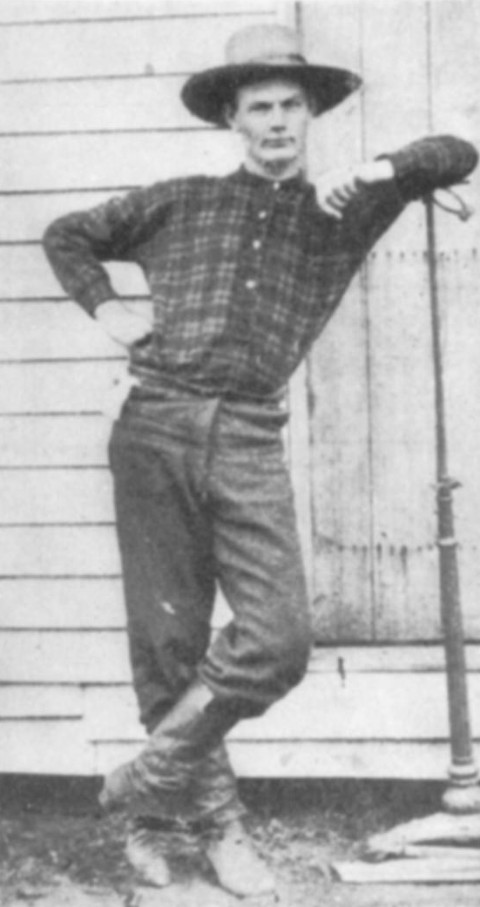 Robert Ewing "Bob" Younger (October 29, 1853 – September 16, 1889) was an American criminal and outlaw, the younger brother of Cole, Jim and John Younger. He was a member of the James-Younger gang